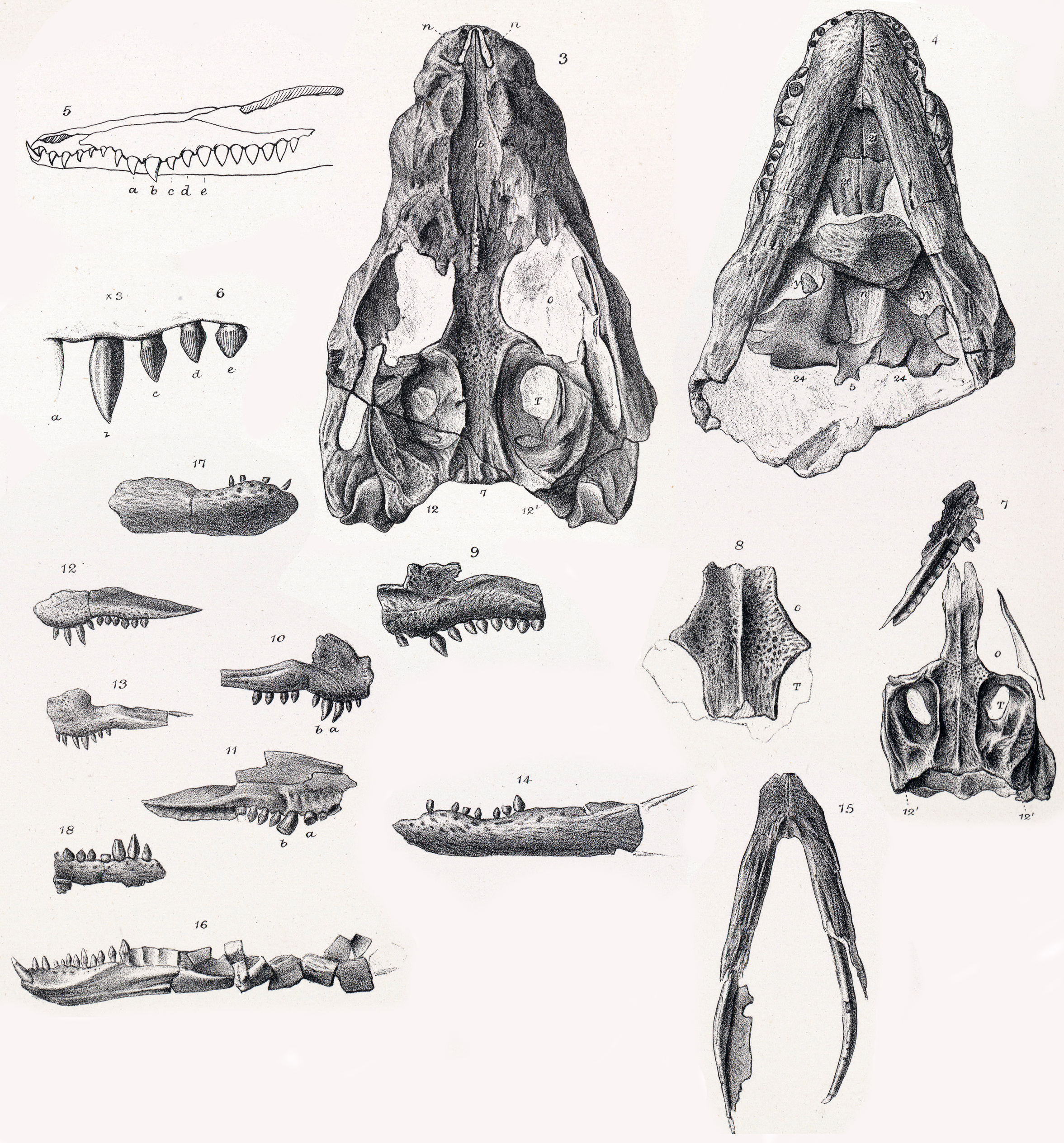 Genus—Theriosuchus. Fig. 3. Upper view of skull of Theriosuchus pusillus. Fig. 4. Under view of the same skull. Fig. 5. Side view of facial part of the same skull. Fig. 6. Crowns of five teeth, a, b, c, d, e, in fig. 5, magnified 3 diameters. Fig. 7. Upper view of cranium and inner view of left maxillary, Theriosuchus pusillus. Fig. 8. Frontal bone, Theriosuchus pusillus. Fig. 9. Part of left maxillary, ib. Fig. 10. Part of right maxillary, ib. Fig. 11. Left maxillary, inner side view, ib. Fig. 12. Right maxillary, young individual, ib. Fig. 13. Right maxillary, young individual, ib. Fig. 14. Left dentary, side view, mature individual. Fig. 15. Dentary and angular parts of mandible, under view, ib. Fig. 16. Dentary and fragments of mandible, inner side view, ib. Fig. 17. Fore part of right dentary, side view, ib. Fig. 18. Portion of left dentary, ib. The figures are of the natural size save where otherwise expressed. From the Middle Purbeck; in the British Museum.